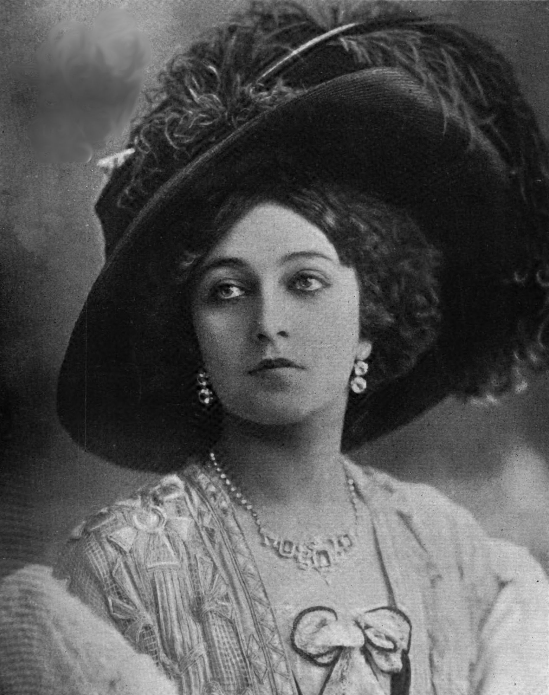 Odette Valery was an Italian dancer. This photograph was taken when she was appearing at the Manhattan Opera House where she had been engaged by Oscar Hammerstein I.